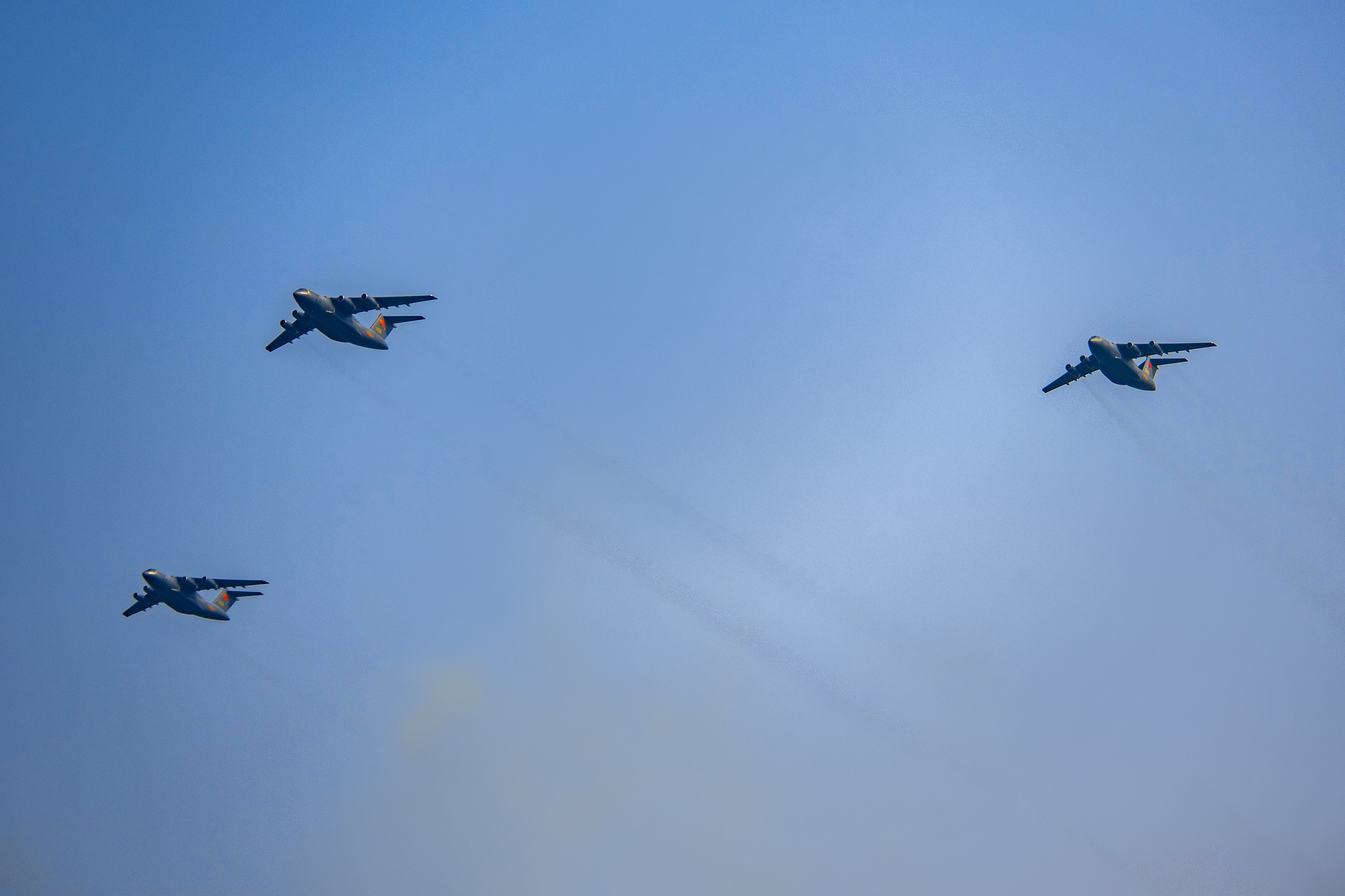 Three Y-20s.